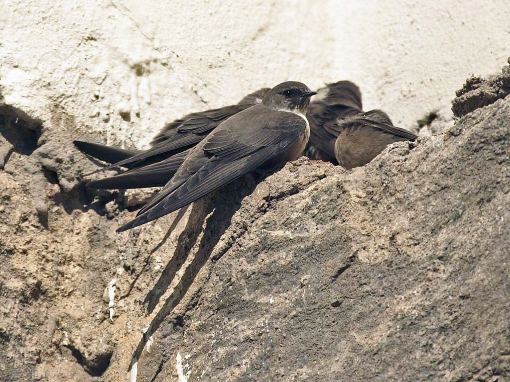 Eurasian Crag Martins perching on a rocky surface in Europe.